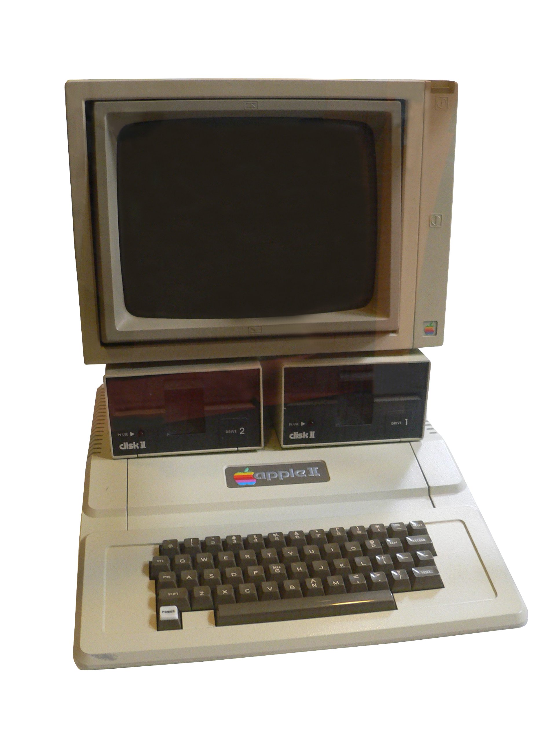 Apple II computer. On display at the Musée Bolo, EPFL, Lausanne.